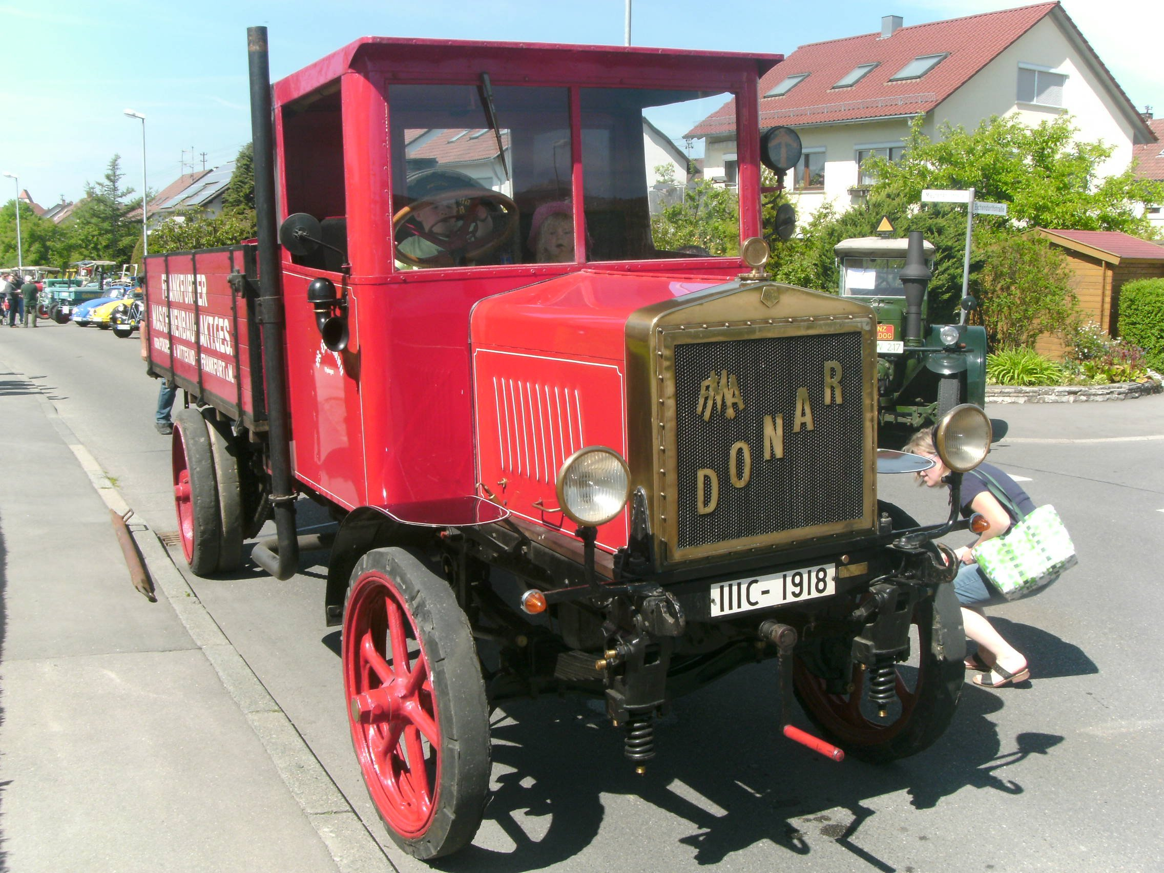 FMA Donar, produced by Frankfurter Maschinenbau AG, vorm. Pokorny und Wittekind, 1918